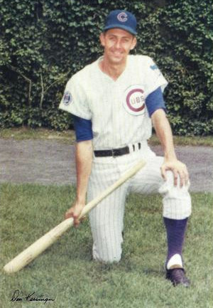 Professional baseball player Don Kessinger